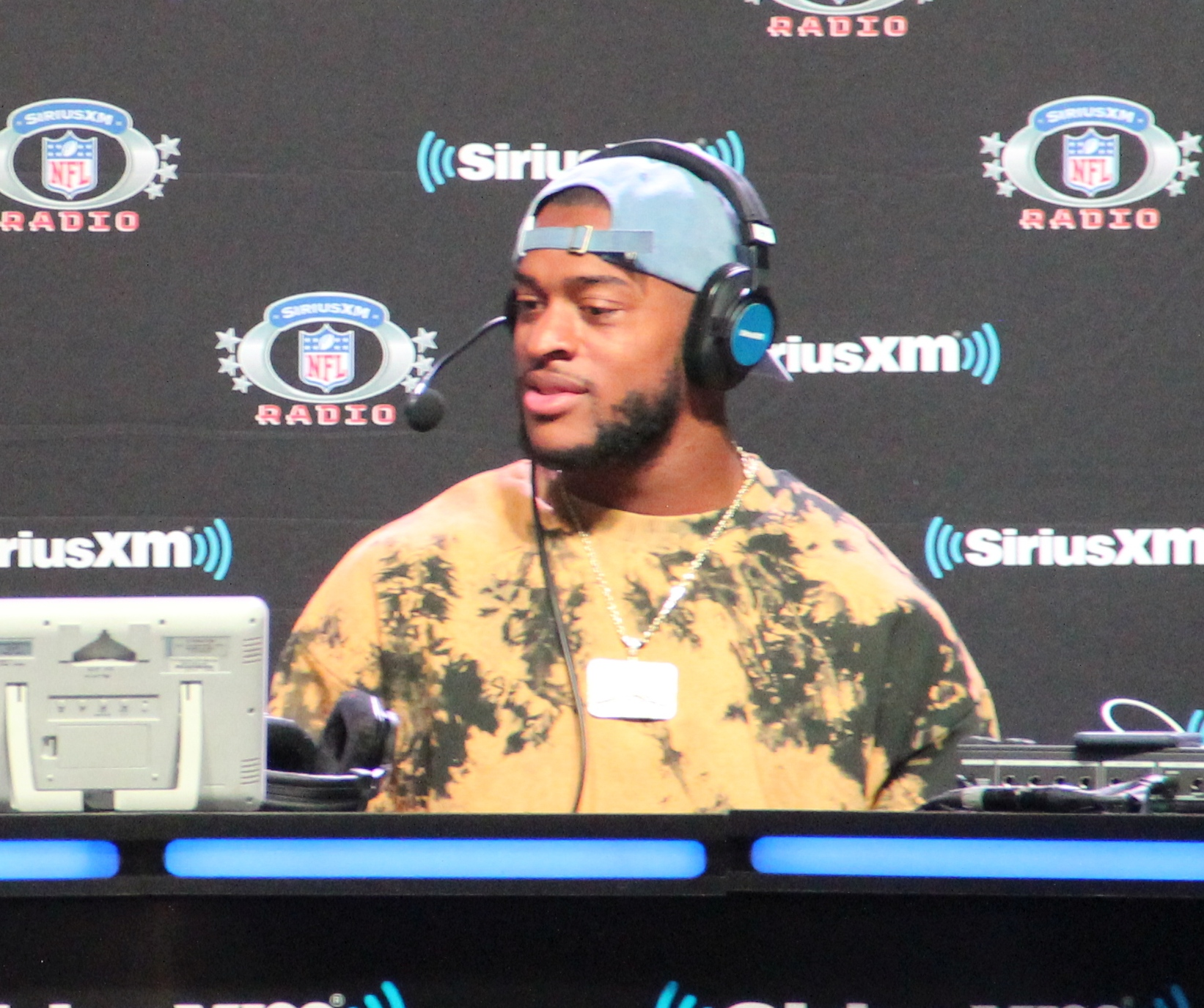 Allen Robinson in 2019